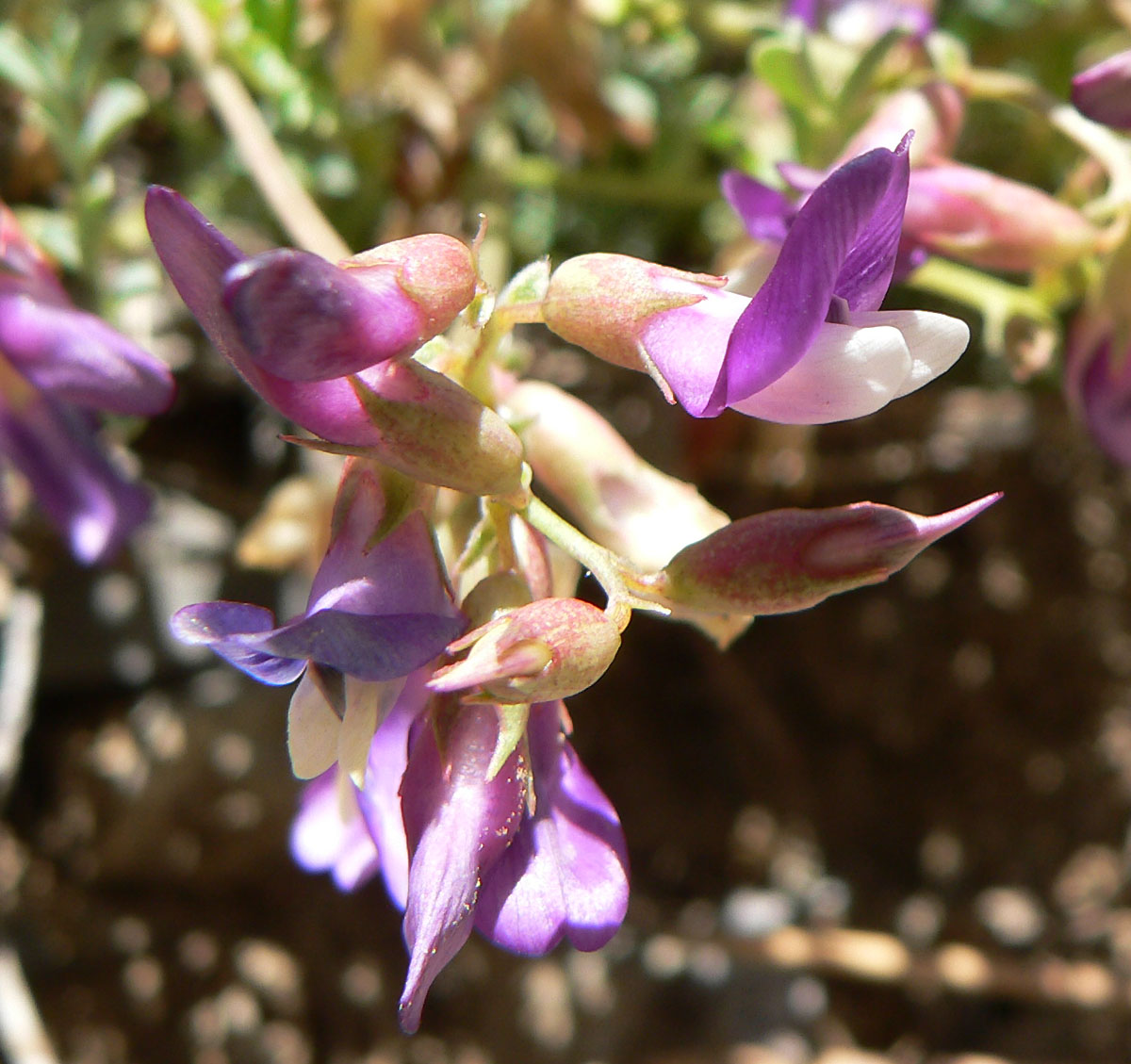 Astragalus oophorus var. clokeyanus in Lee Canyon alongside the Bristlecone Trail near the trailhead, Spring Mountains, southern Nevada (elev. about 2700 m)